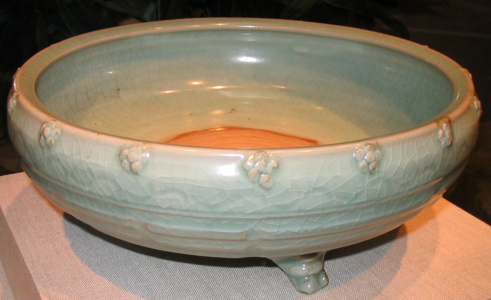 A ceramic tripod planter from the Ming Dynasty. Found in Zhejiang province of China. Known as "Longquan ware". Built in the 14th or 15th centuries. Stoneware with celadon glaze. It is housed in the Smithsonian Institution in Washington D.C., where a plaque reads "This tripod bears the eight-trigram motif found in ancient Chinese cosmology."